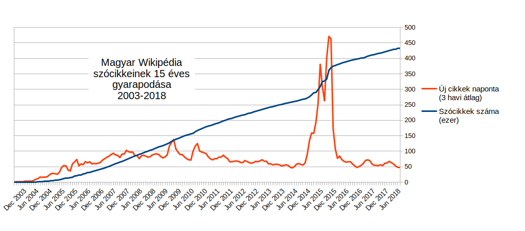 Hungarian Wikipedia article growth in the First 15 years 2003-2018 Hungarian titles, in PNG format. Datasource